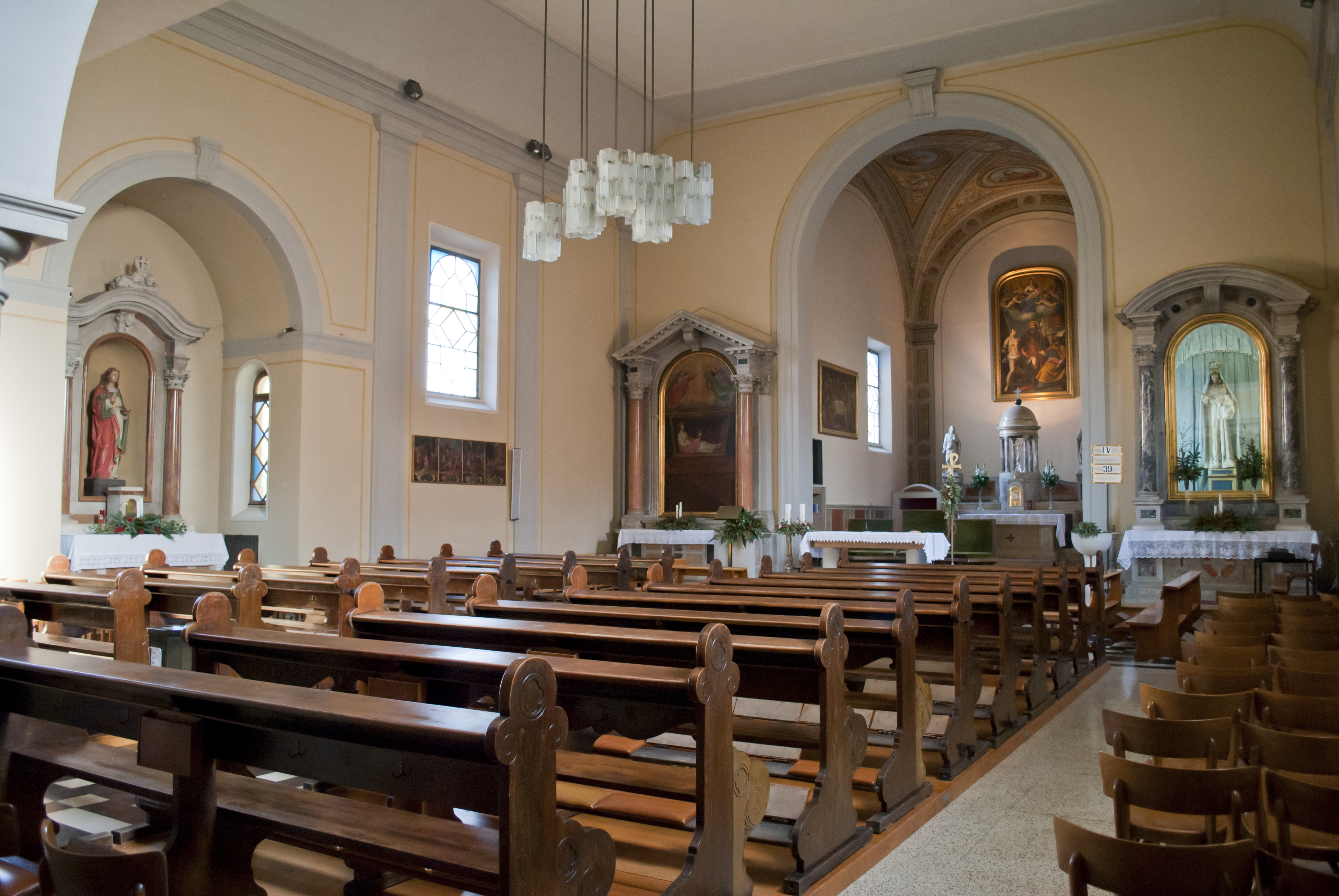 Church san Rocco (interior), Gorizia.